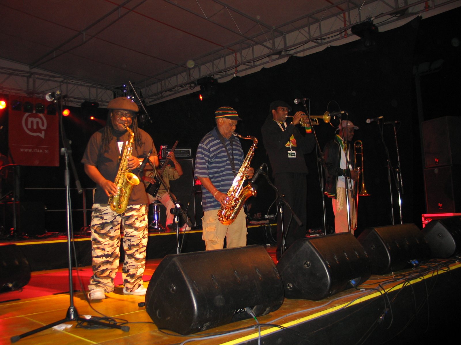 The Skatalites' horn section in action at Njoki Summer Festival, Ajdovščina, Slovenia. From left to right: Lester "Ska" Sterling (alto sax), Karl "Cannonball" Bryan (tenor sax), Kevin Batchelor (trumpet) & Vin "Don Drummond Jr." Gordon (trombone). In the background Val Douglas on bass.